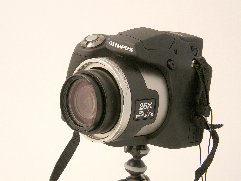 Olympus SP590 UZ